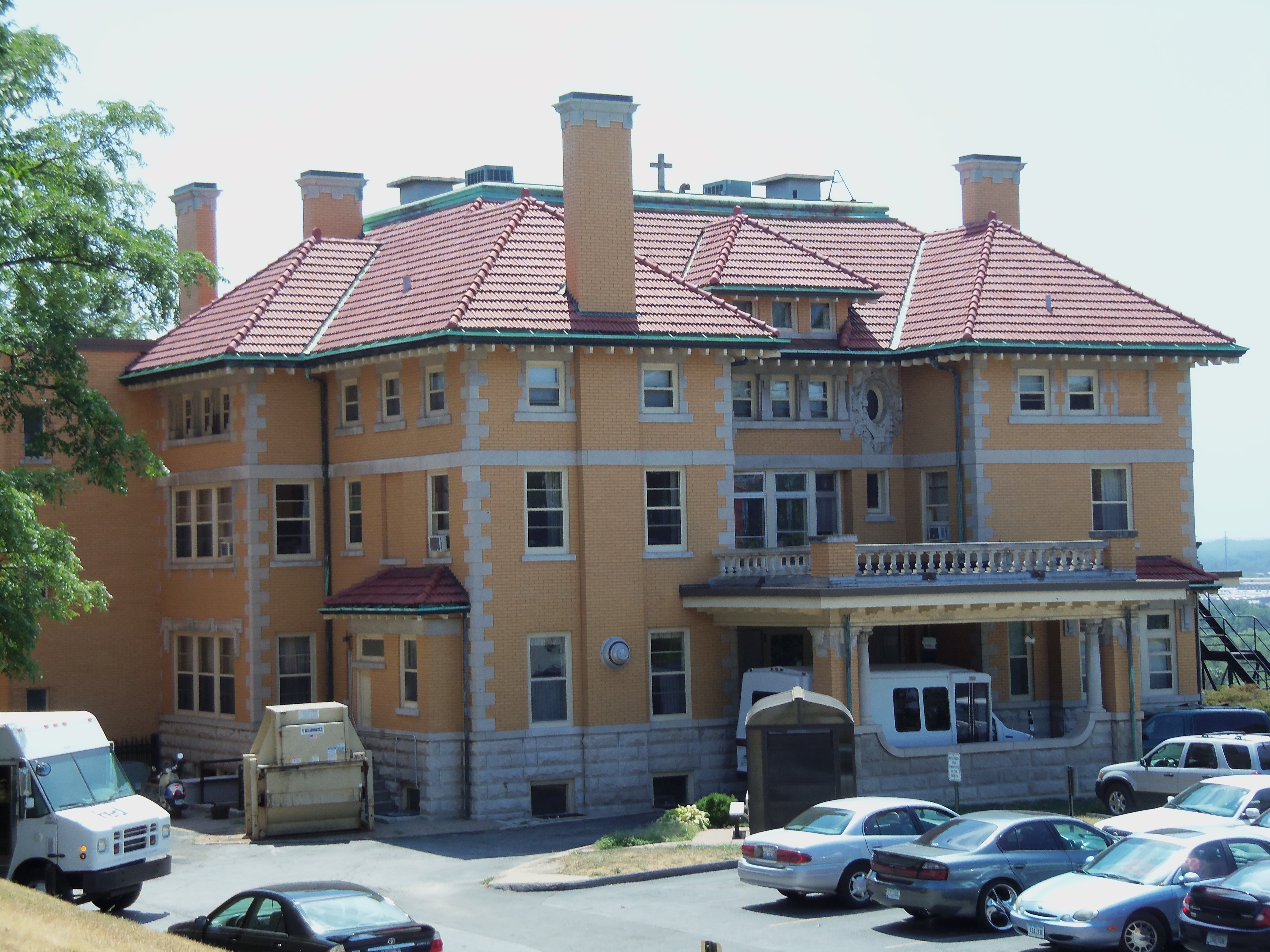 Henry Kahl House in Davenport Iowa is listed on the National Register of Historic Places.